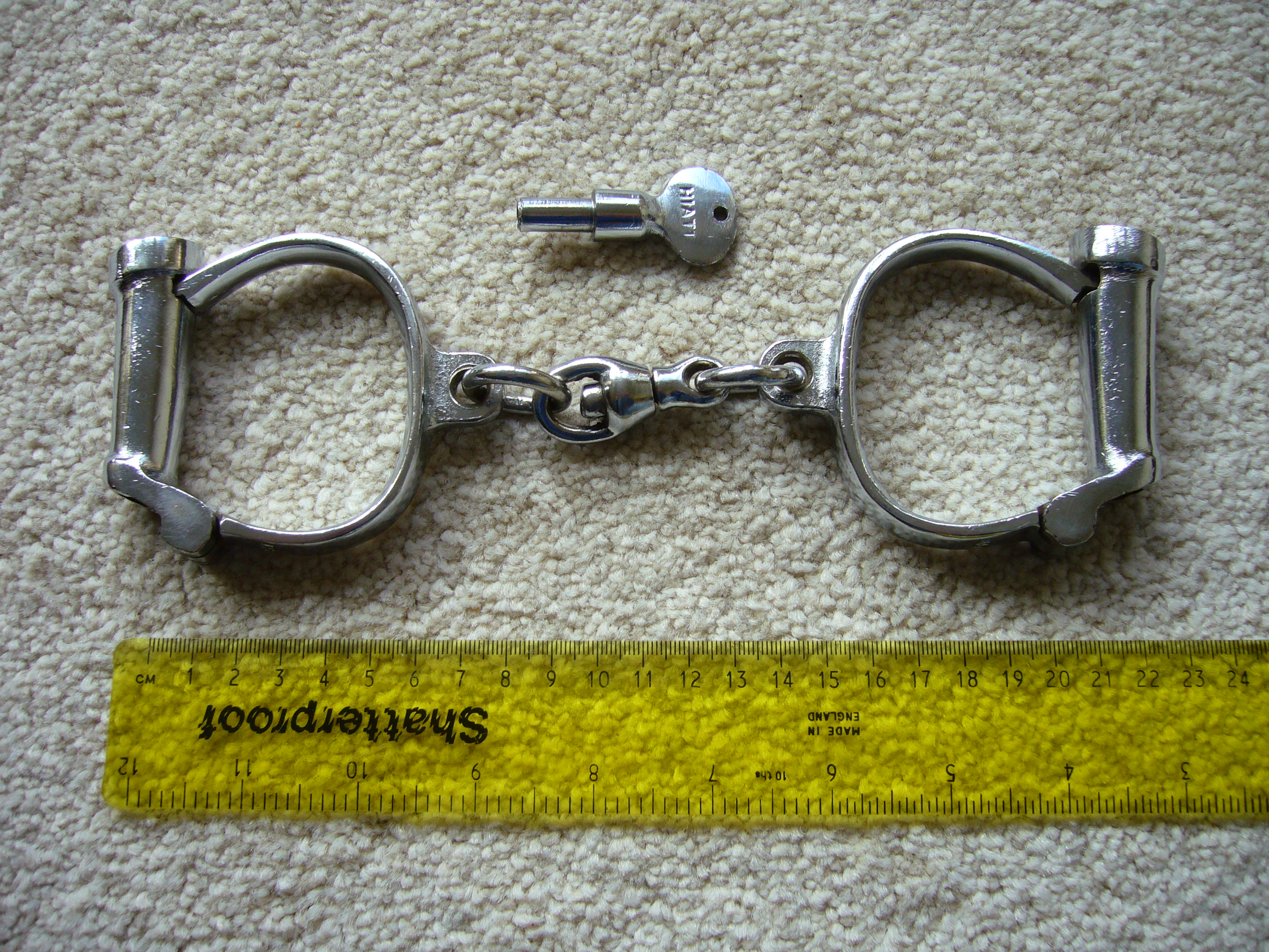 Hiatt type 104 "Darby" handcuffs. Circa early 1950s.